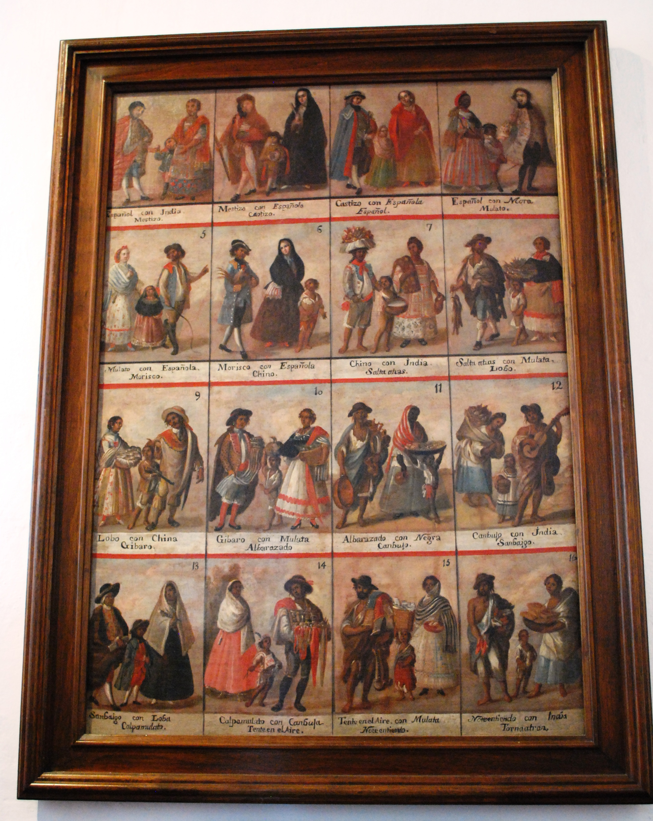 Painting depicting the casta or caste system of Mexico's colonial period. On display at the Museo Nacional del Virreinato in Tepotzotlan, Mexico State